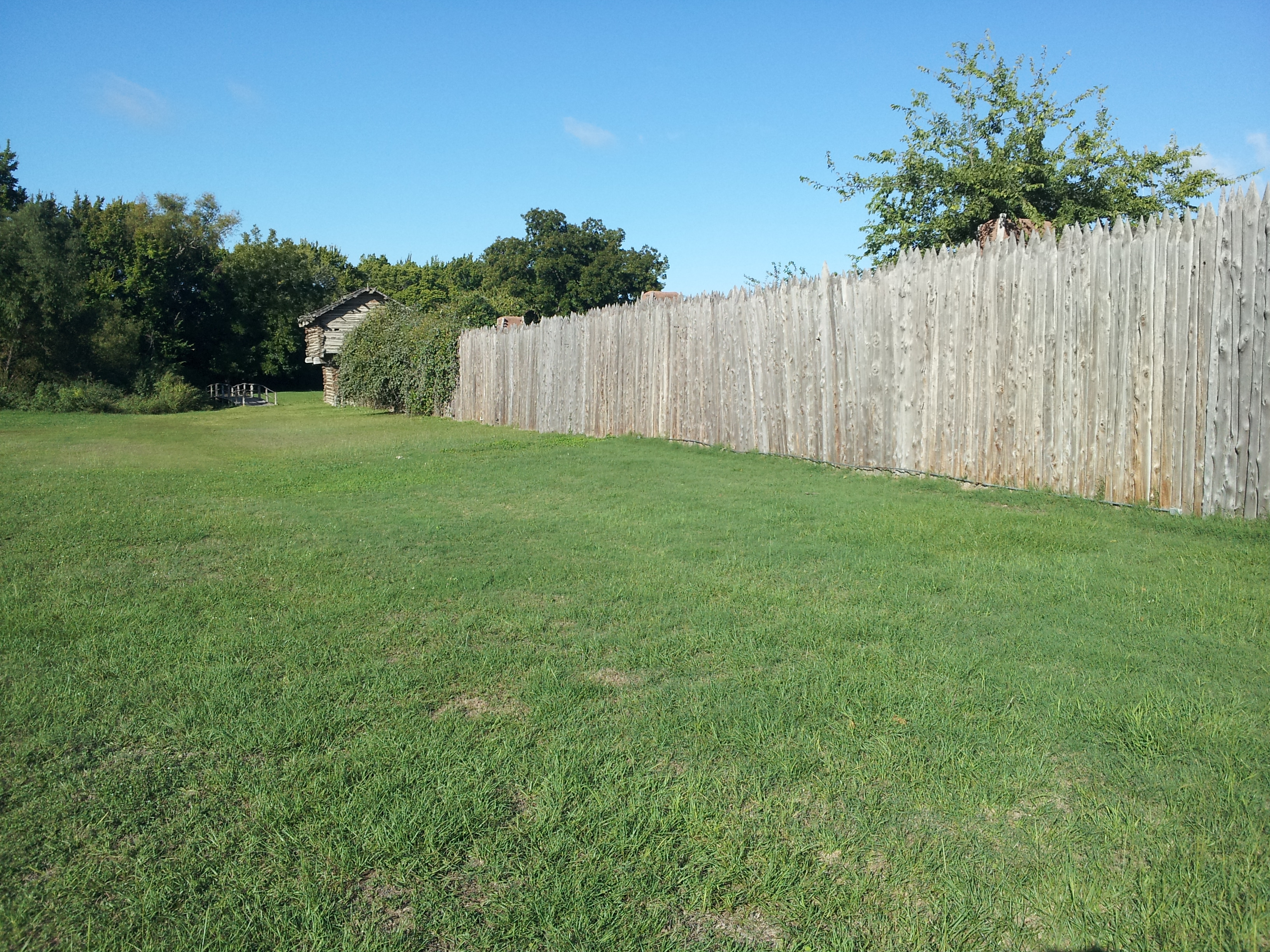 Old Fort Parker, spring is on the left